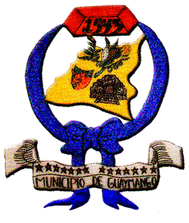 Logo de Guaymango